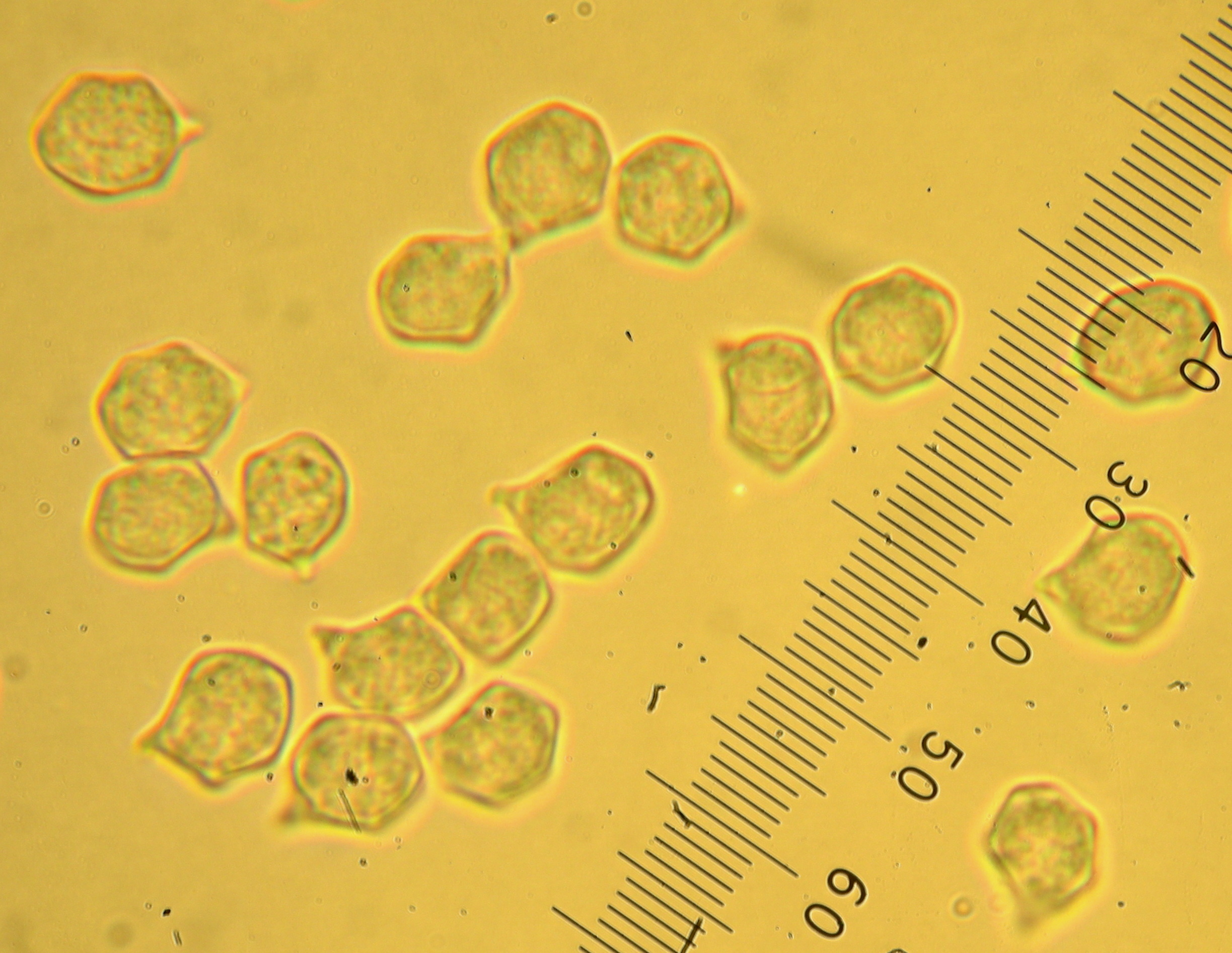 Entoloma lividoalbum (Kühner & Romagn.) Kubicka Location: Bolinas Ridge, Marin Co., California, USA Observation Notes: These fit the description for E. lividoalbum well except they are on the small side with caps only 4 cm across max.They had a slight cucumber odor.The pink spores were angular, mostly 5 sided with a large hilar appendage.Spores were ~ 8.5-9.3 X 7.0-8.0 micronsThe whitish stipe was distinctly longitudinally striate.“Entoloma rhodopolium group” could have been an alternative safer ID. For more information about this, see the observation page at Mushroom Observer.